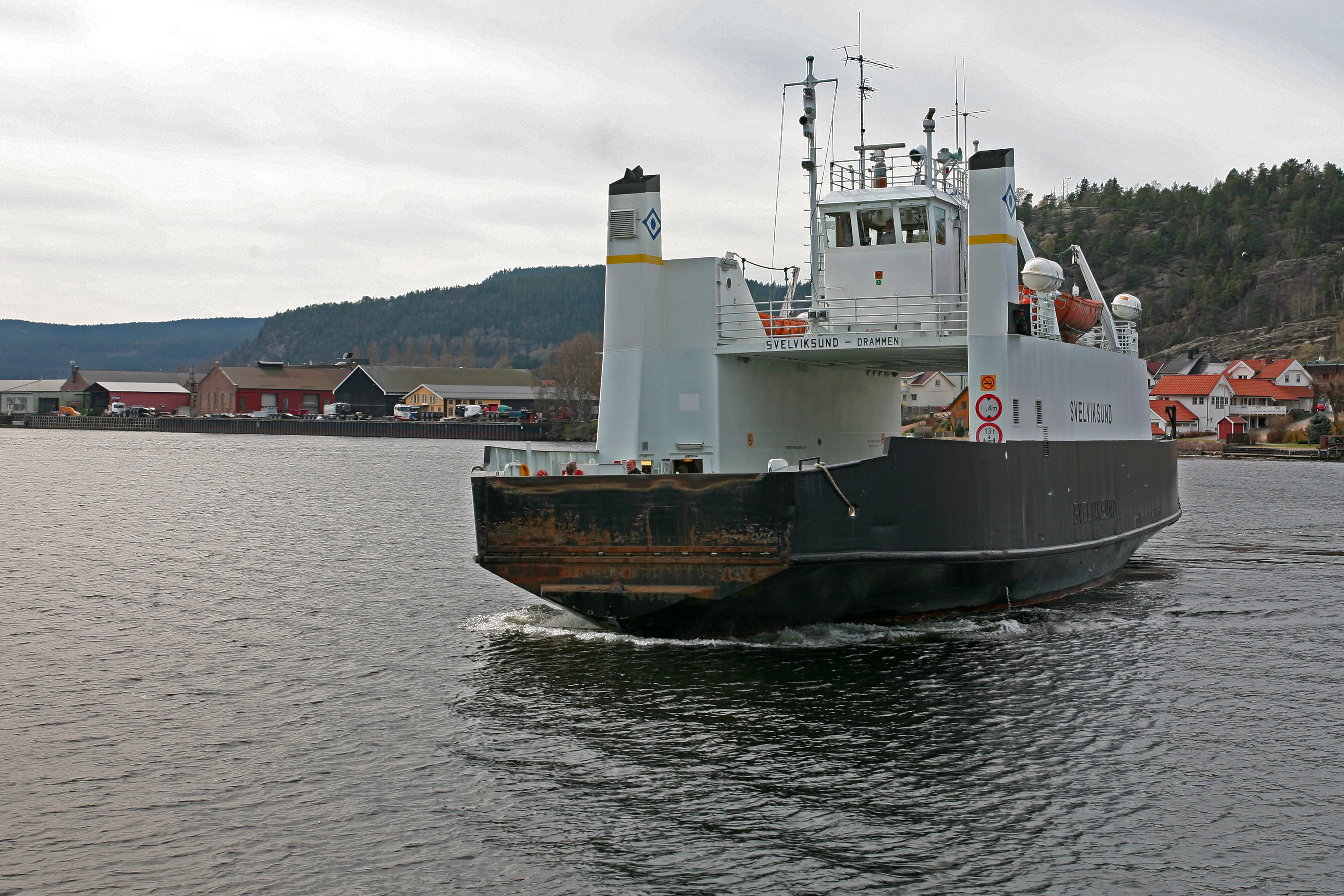 Picture of Svelviksund (Svelvik - Norway)